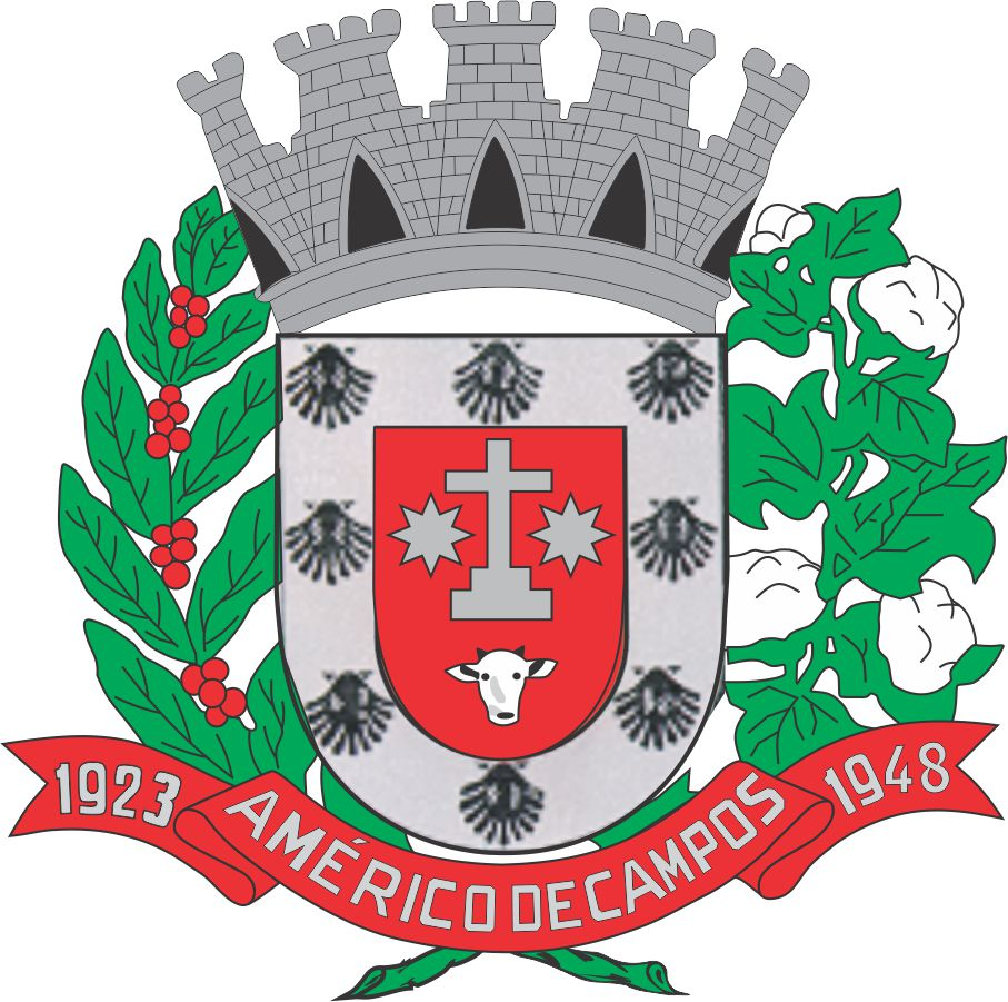 Brasão do Município de Américo de Campos